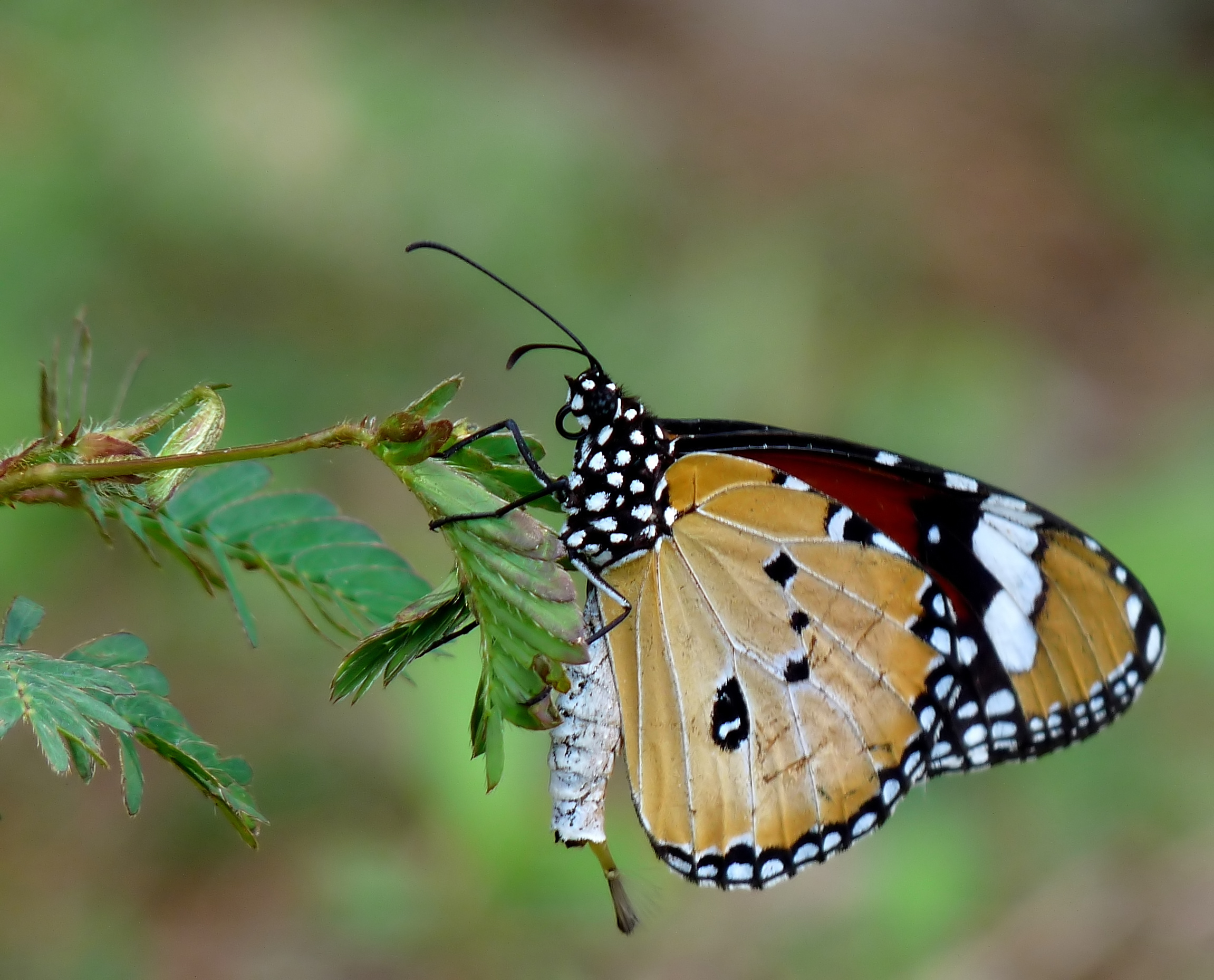 Danaus chrysippus, known as the Plain Tiger or African Monarch, is a common butterfly which is widespread in Asia and Africa. It belongs to the Danainae ("Milkweed butterflies") subfamily of the brush-footed butterfly family, Nymphalidae. The Plain Tiger can be considered the archetypical danaine of India. Accordingly, this species has been studied in greater detail than other members of its subfamily occurring in India. The male Plain Tiger is smaller than the female, but more brightly colored. In addition, males have a number of secondary sexual characteristics. The male has a pouch on the hindwing. This spot is white with a thick black border and bulges slightly. It is a cluster of specialised scent scales used to attract females. The males possess two brush-like organs which can be pushed out of the tip of the abdomen. Taken at Kudayathoor, Kerala, India.